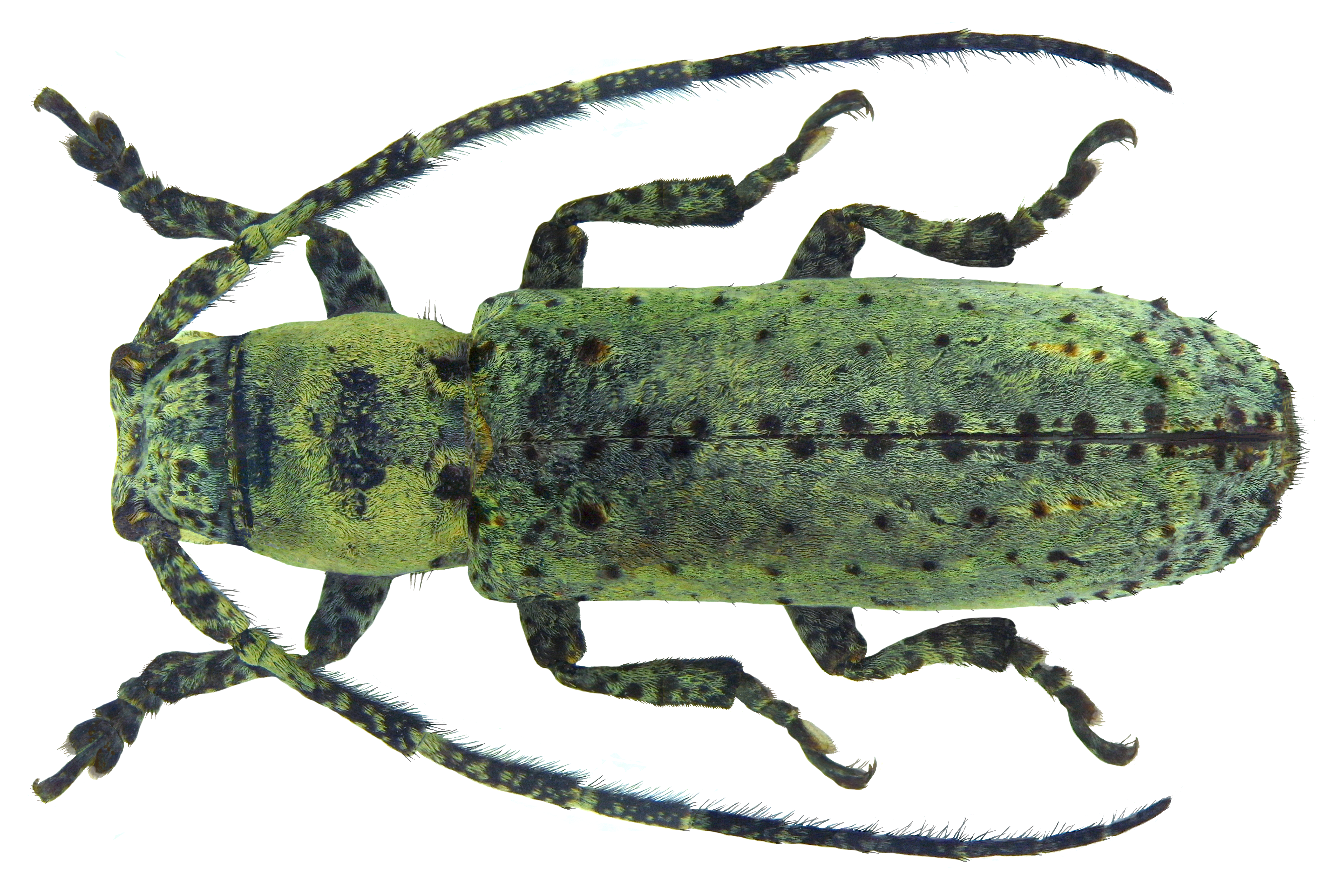 Family: Cerambycidae Size: 16.7 mm Location: Namibia, Damaraland, Palmwag U.Schmidt leg, 24.III.1994; det. K.Adlbauer, 2011 Paratype Photo: U.Schmidt, 2011